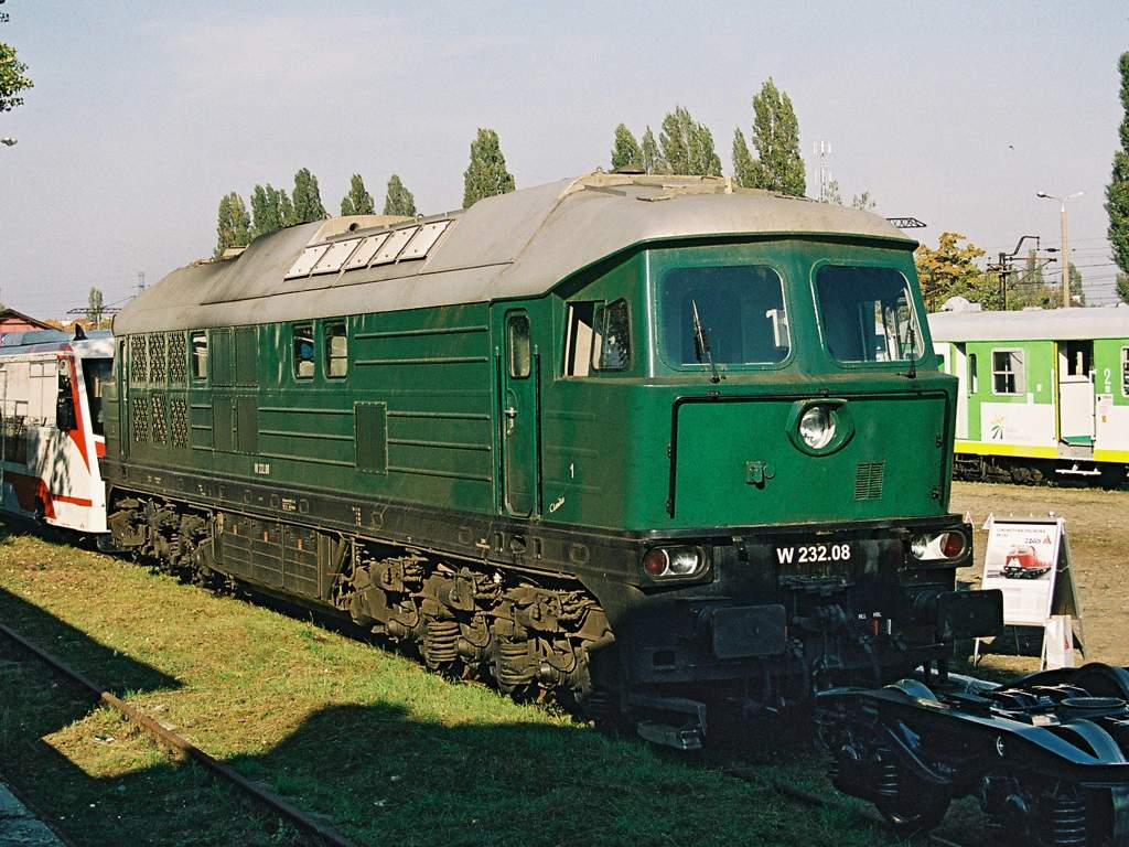 W232.08 of SIGMA; TRAKO trade fair, Gdańsk, Poland